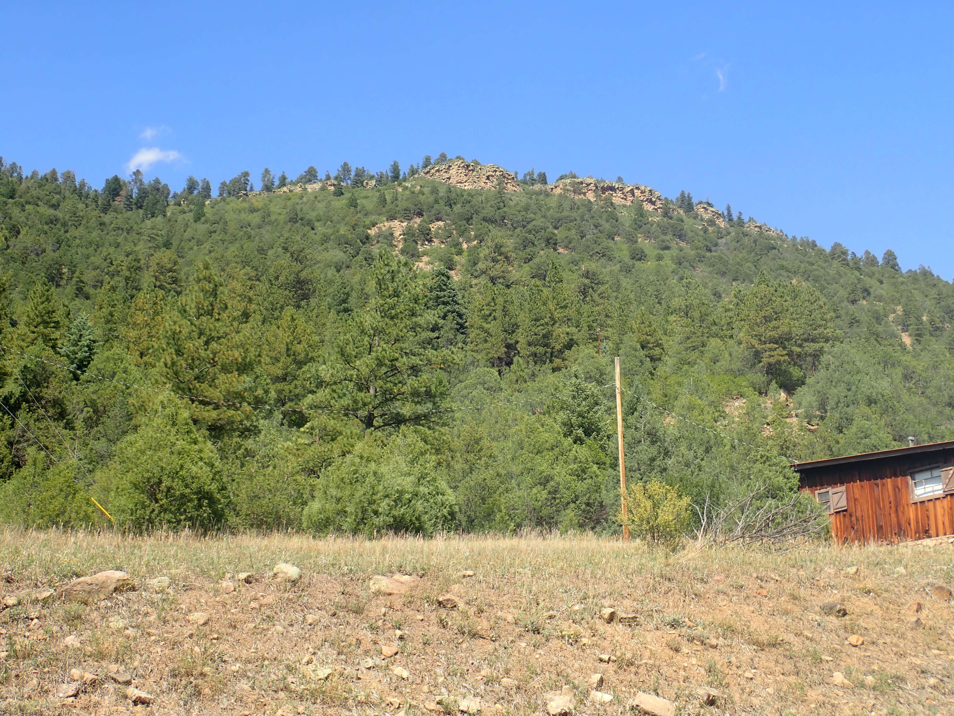 This images shows the type section of the Flechado Formation on the north side of Rio Pueblo Valley, New Mexico, USA. The Flechado Formation is a Pennsylvanian marine clastic formation.